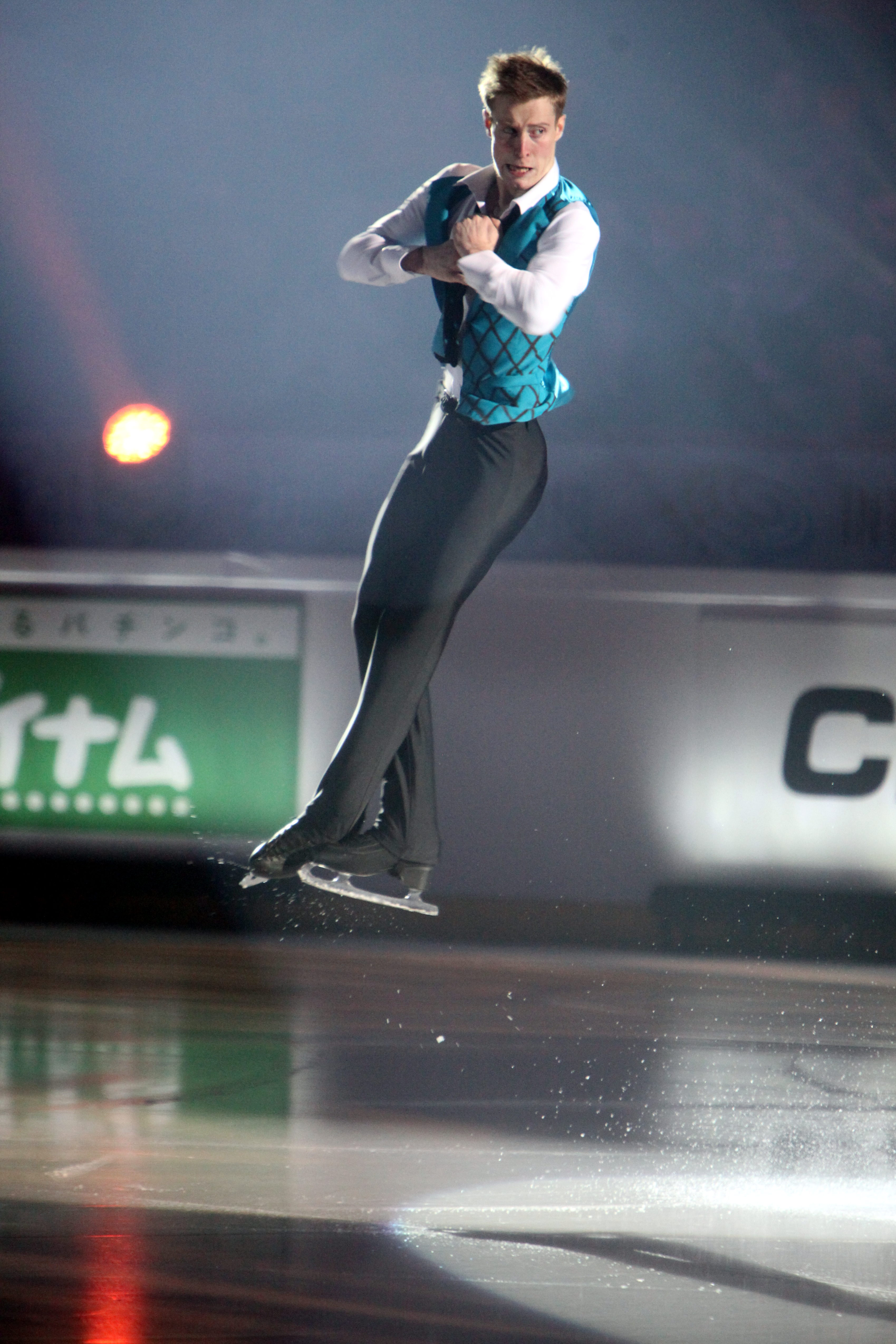 Alexander Samarin during the gala at the Internationaux de France de Patinage 2018.